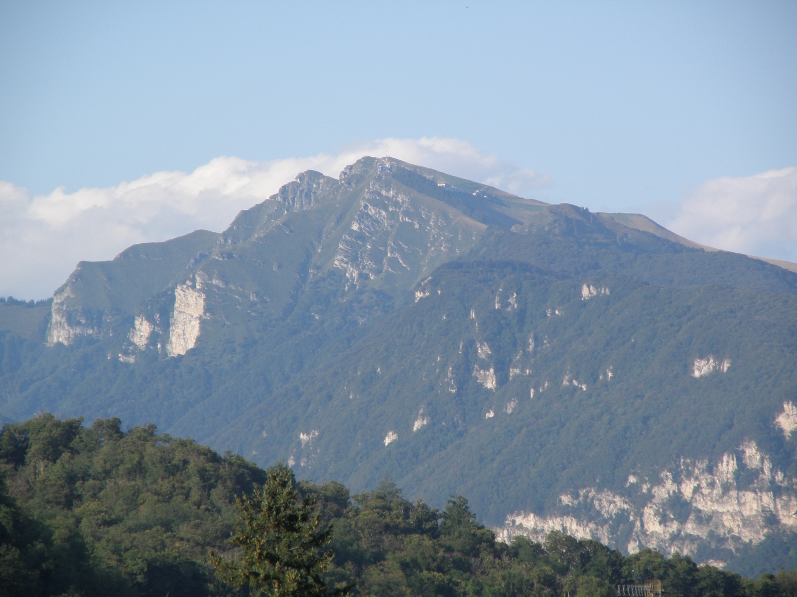 Mount Generoso (seen from Cantello (VA))